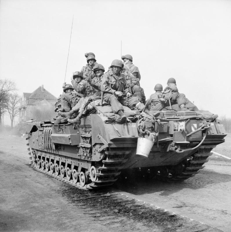 The British Army in North-west Europe 1944-45 A Churchill tank of 6th Guards Tank Brigade carrying paratroopers from the American 17th Airborne Division through Dorsten, 29 March 1945.